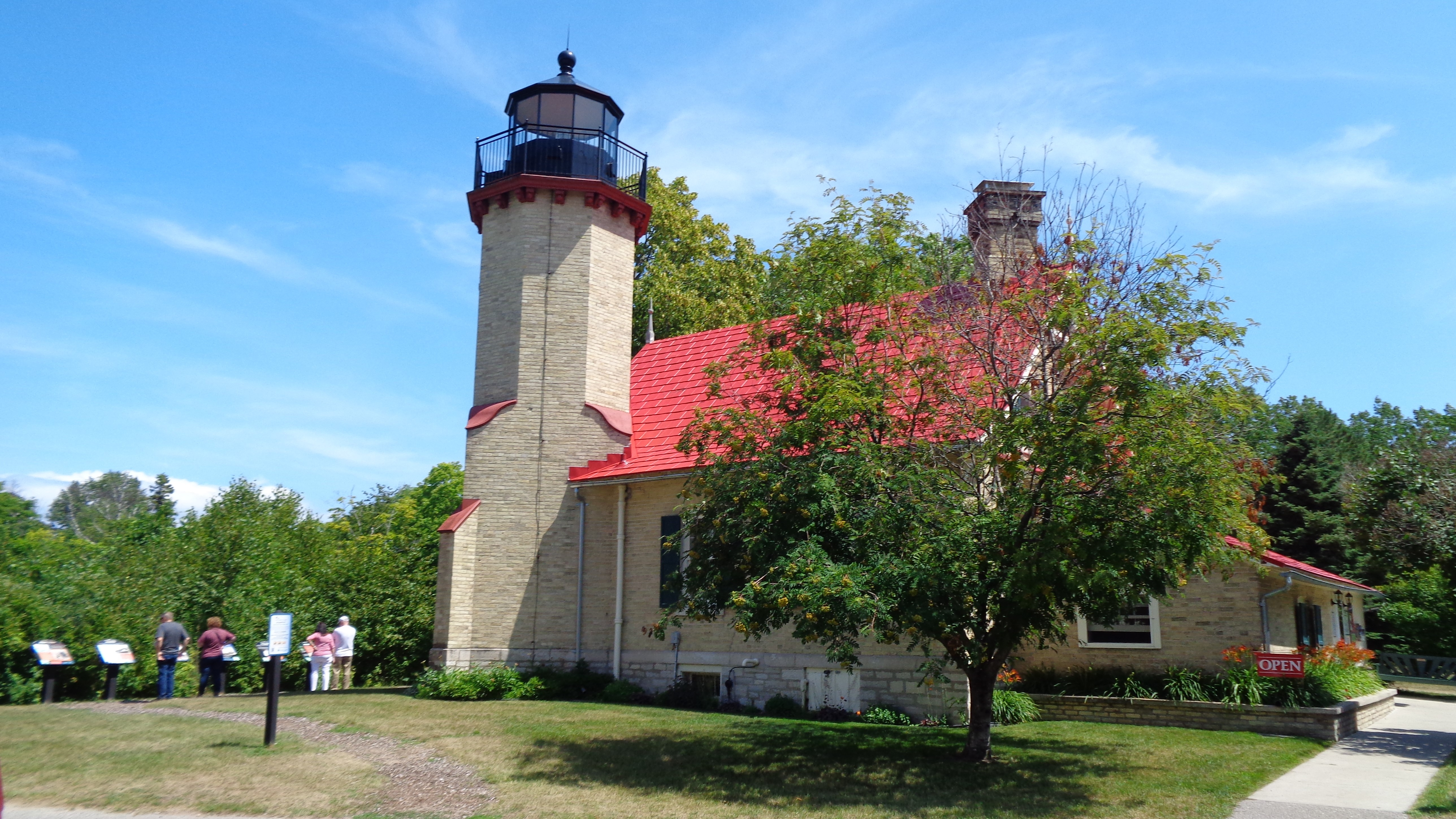 Depicted place: McGulpin Point Light